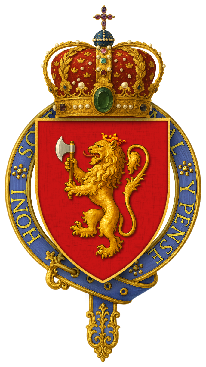 Garter-encircled arms of Olav V, King of Norway with the Crown of the King